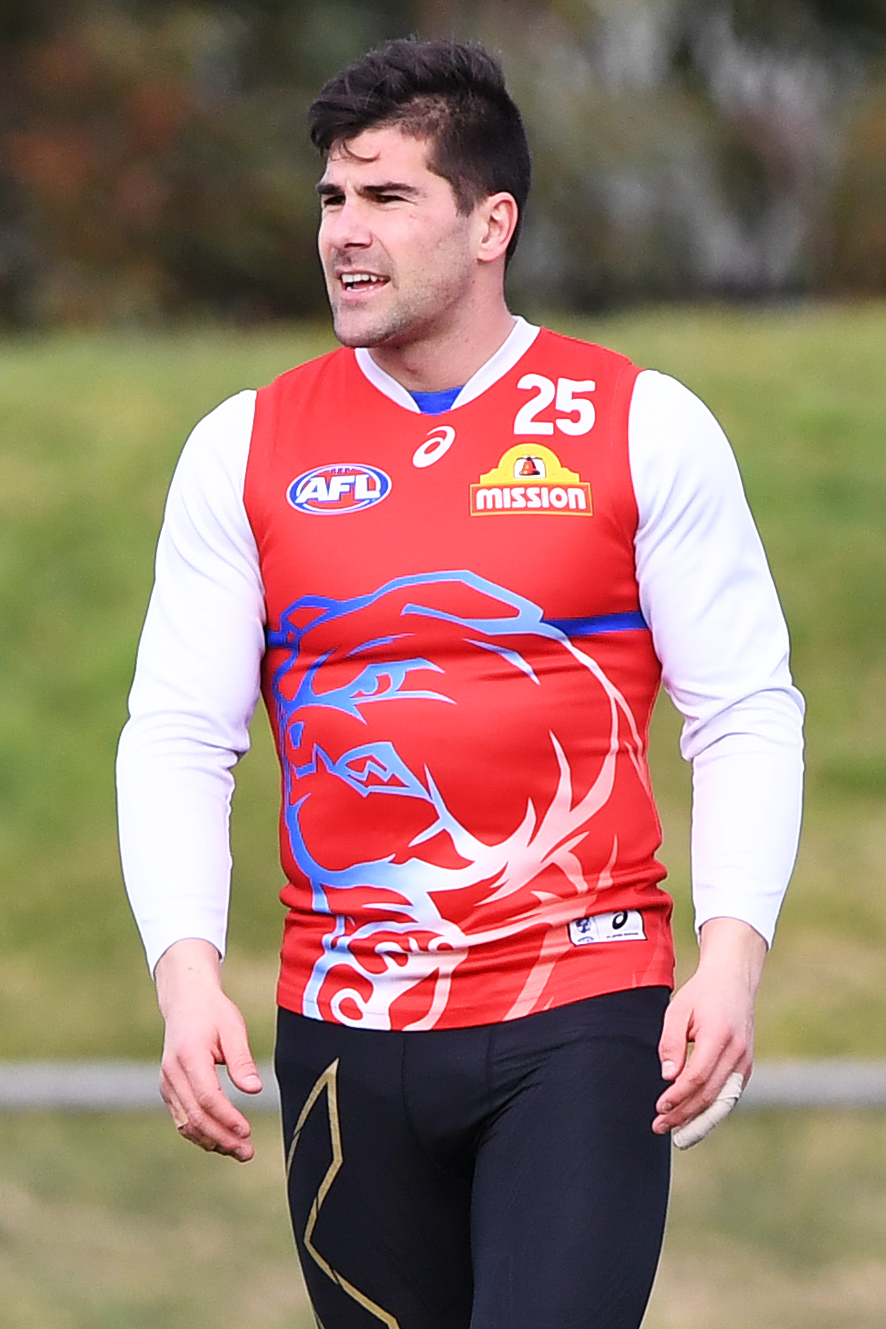 Marcus Adams of the Western Bulldogs during Western Bulldogs training on 7 August 2018 at Whitten Oval in Melbourne, Victoria.